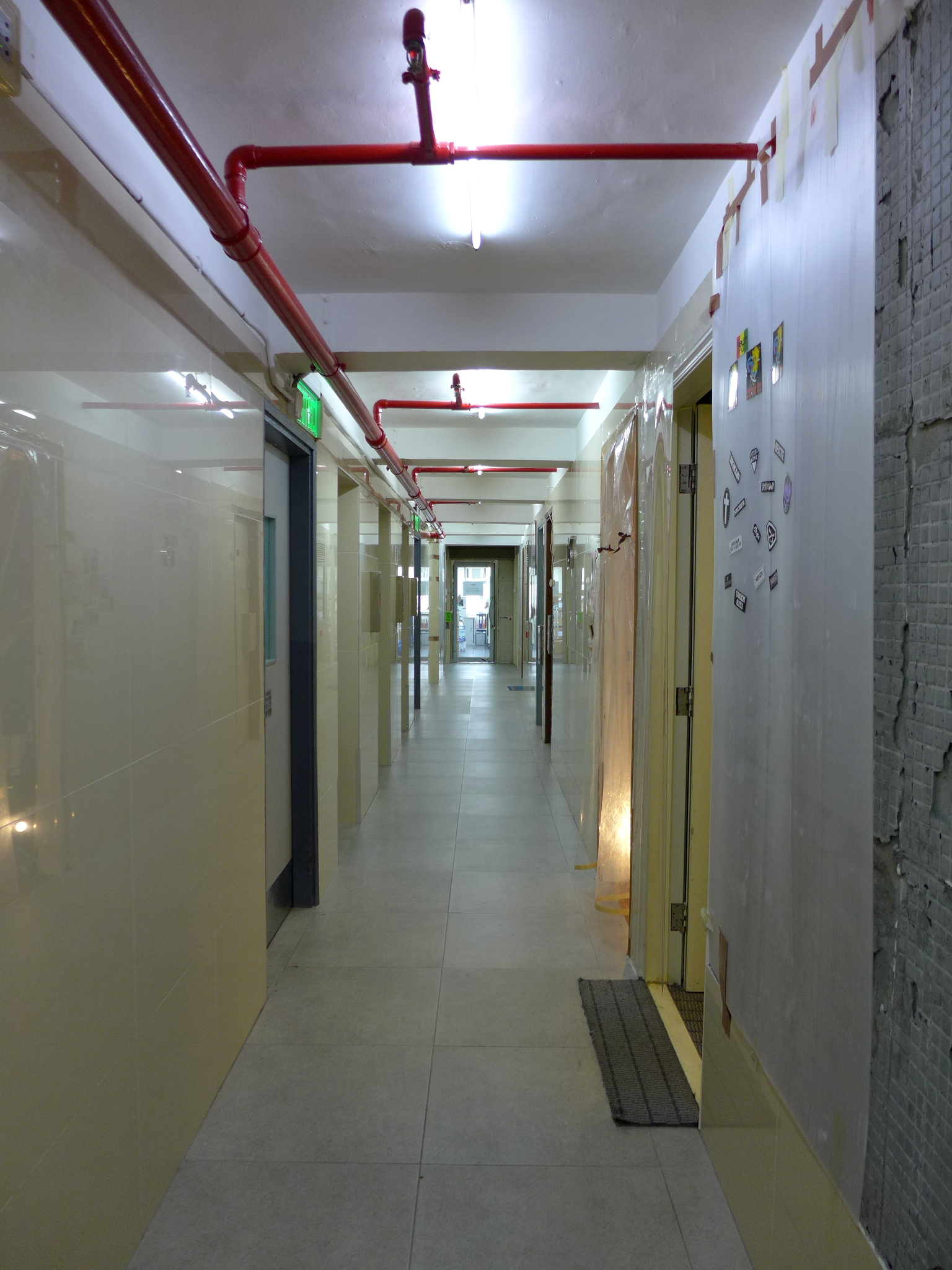 Ho King Commercial Building Upper Zone